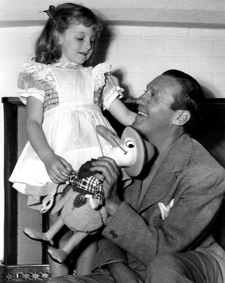 Photo of Jack Benny and his daughter, Joan.